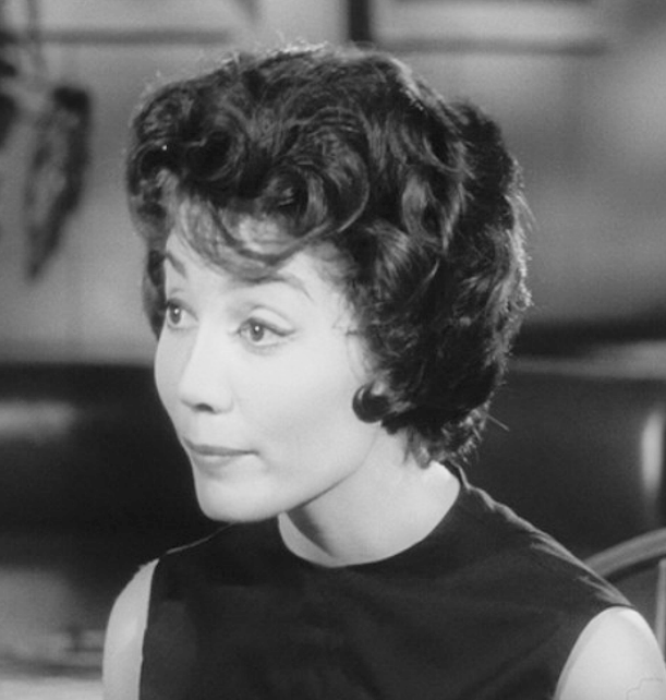 Profile image of actress Jackie Joseph, in the public domain film The Little Shop of Horrors.